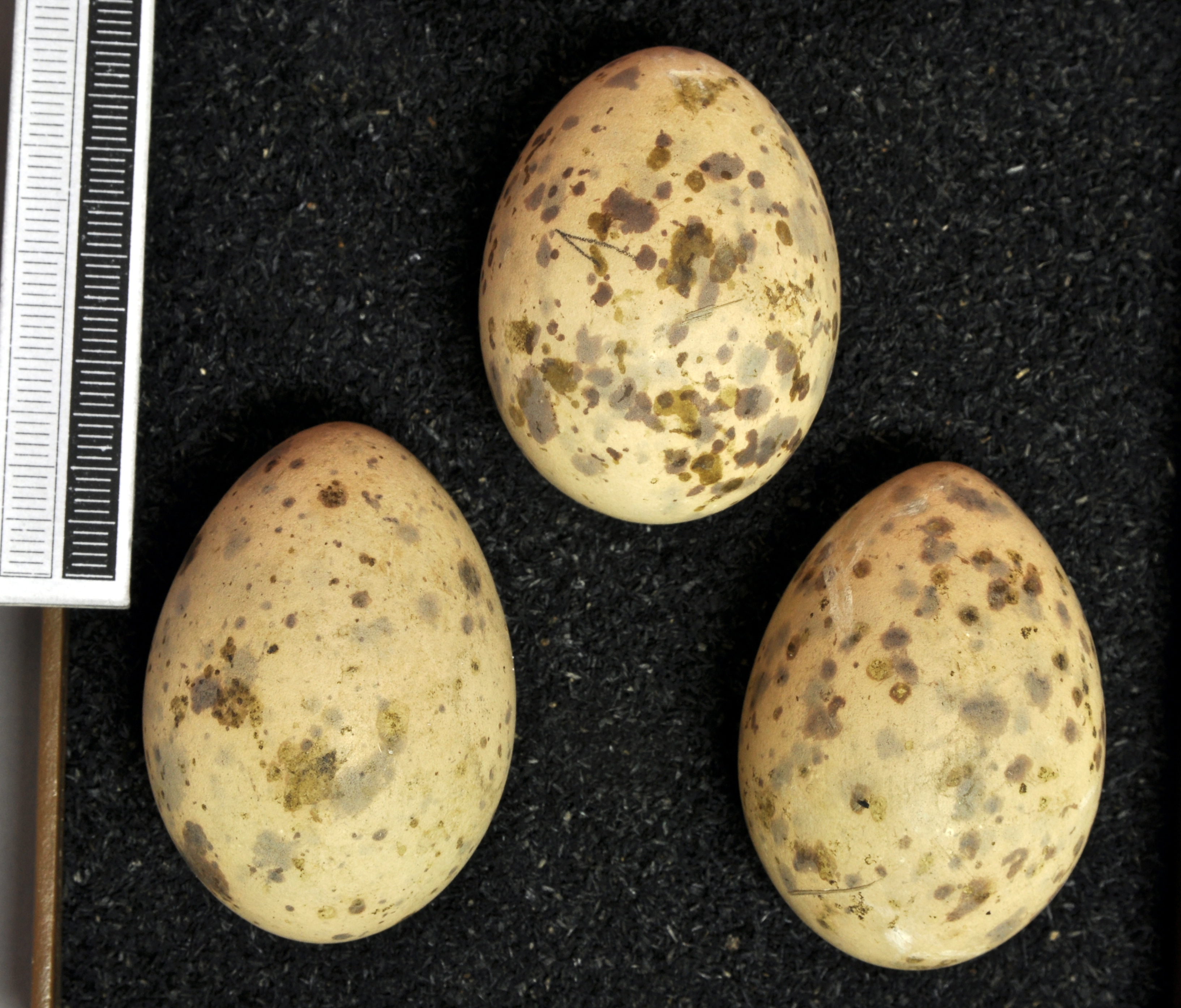 Royal tern Gelochelidon nilotica , egg, Coll. Museum Wiesbaden